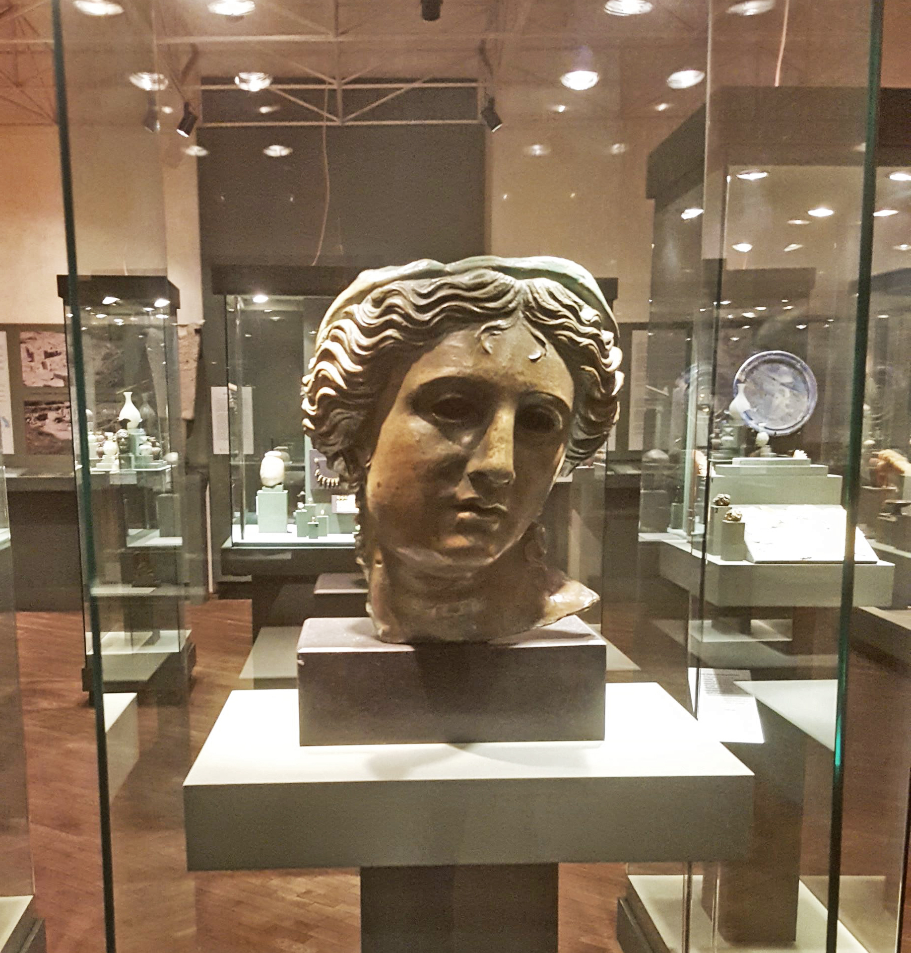 A copy of the head of a bronze head of Anahit/Aphrodite (kept at the British Museum) at the History Museum of Armenia